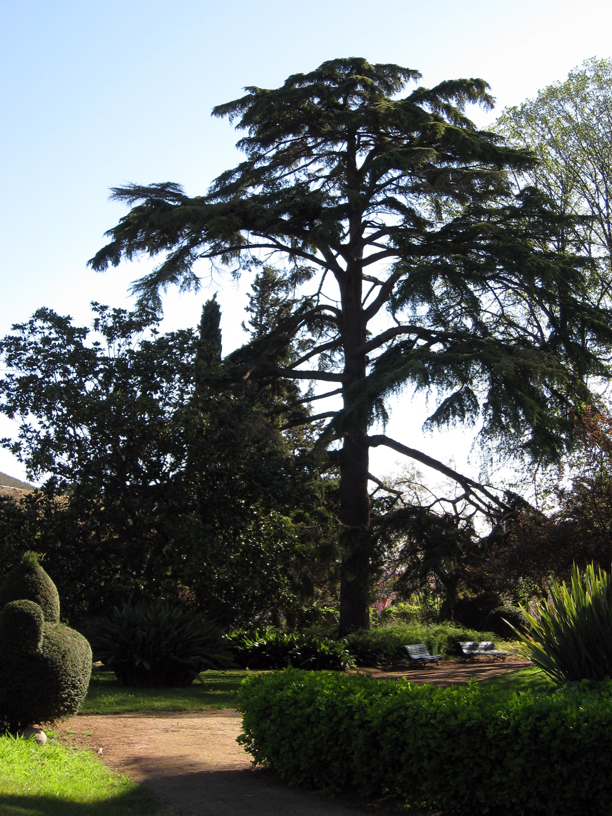 The Jardí domèstic (“Domestic garden”) in the Parc del Laberint d’Horta in Barcelona, Catalonia (Spain).